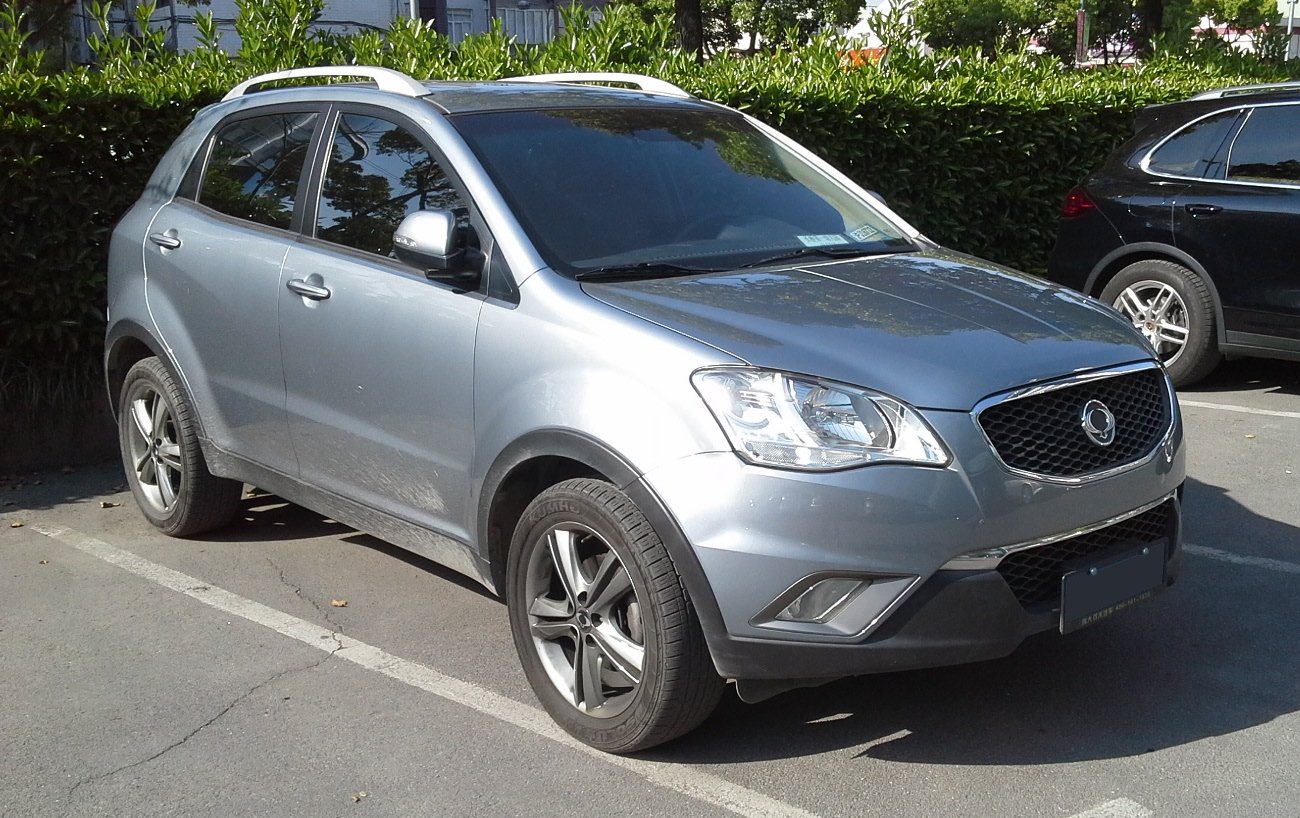 SsangYong Korando C200 photographed in Shanghai, China.